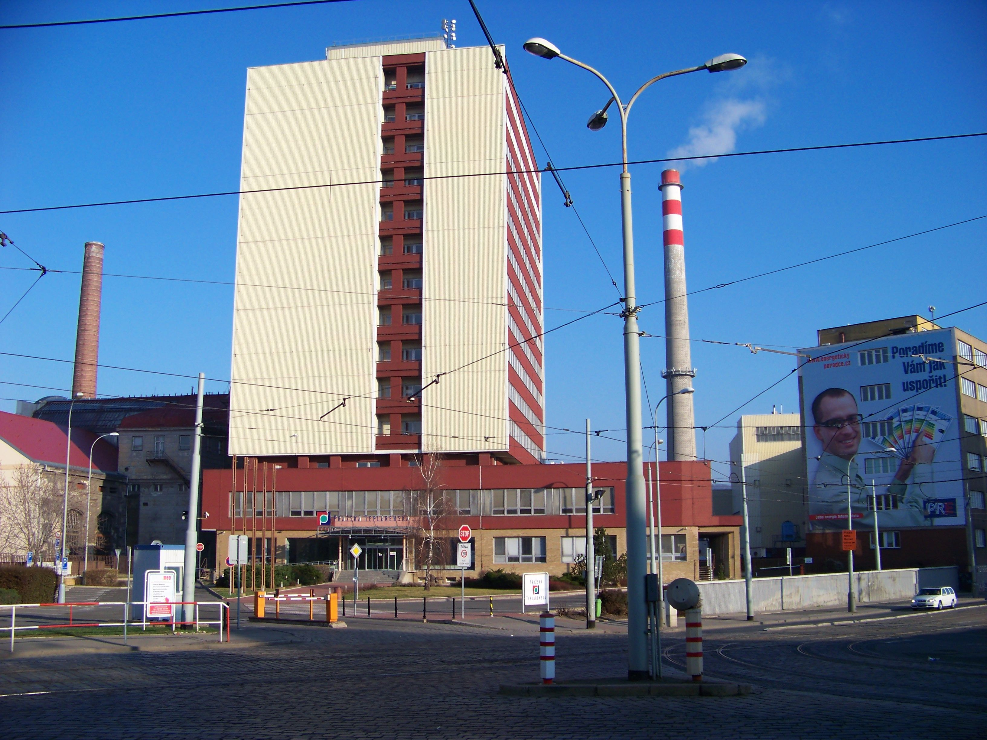 Prague-Holešovice, the Czech Republic. Partyzánská 188/7, the power plant.